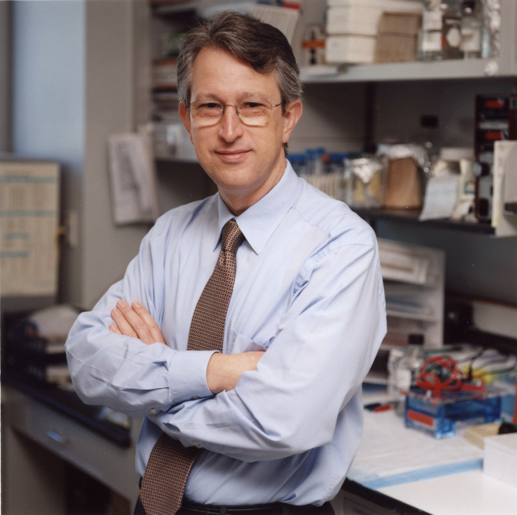 Joan Massagué, PhD, Chair of the Cancer Biology and Genetics Program at Memorial Sloan-Kettering Cancer Center; Howard Hughes Medical Institute Investigator.